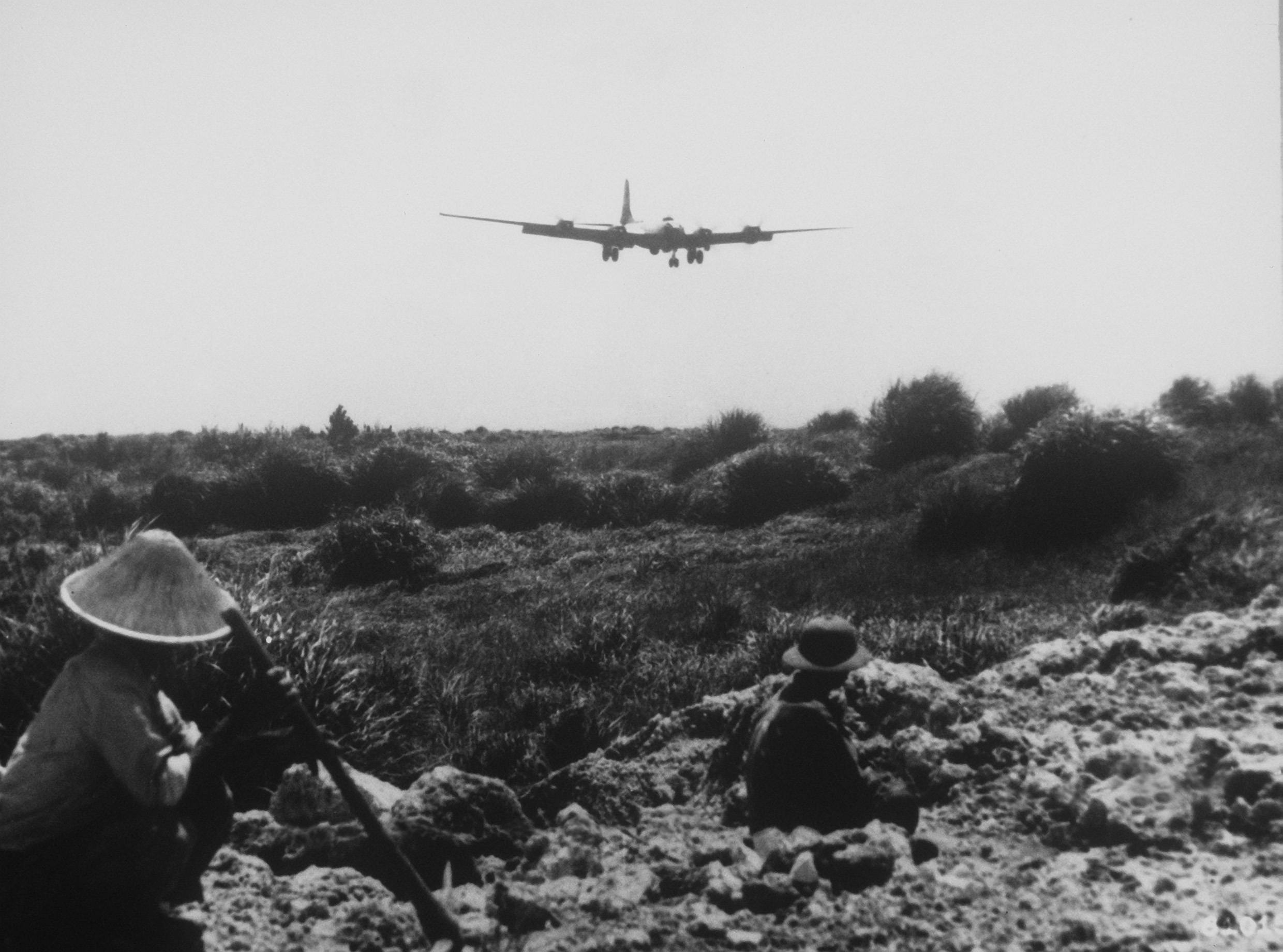 An Air Base on Okinawa--Native Okinawan laborers pause at their work to watch a Far East Air Forces B-29 Superfort of the 19th Bomb Group come in for a landing after delivering a destructive assault on a Communist-held supply center in North Korea. AIR AND SPACE MUSEUM#: 81015 AC